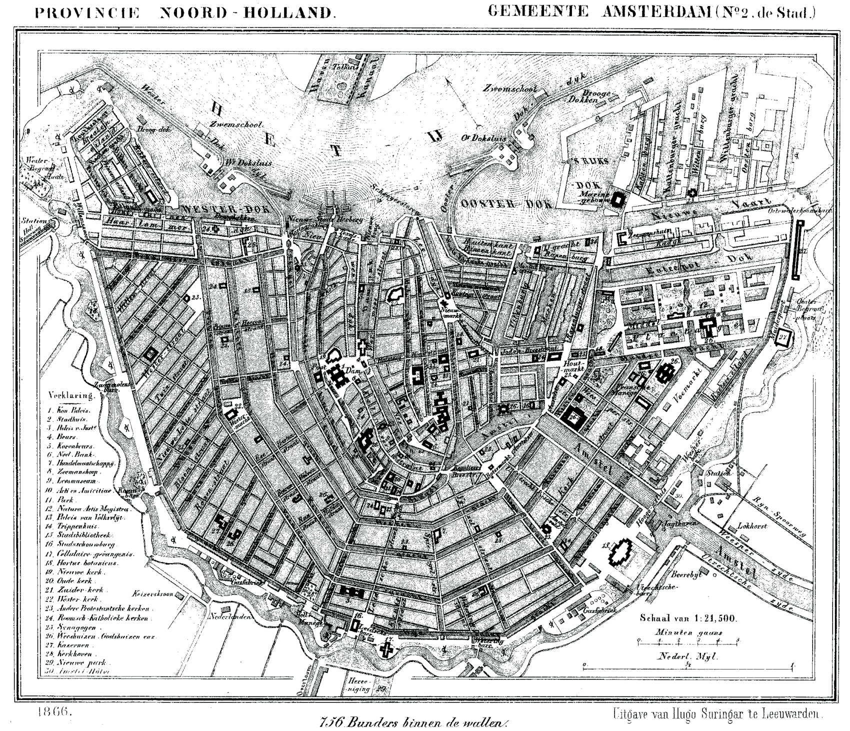 Historic map city of Amsterdam, the Netherlands